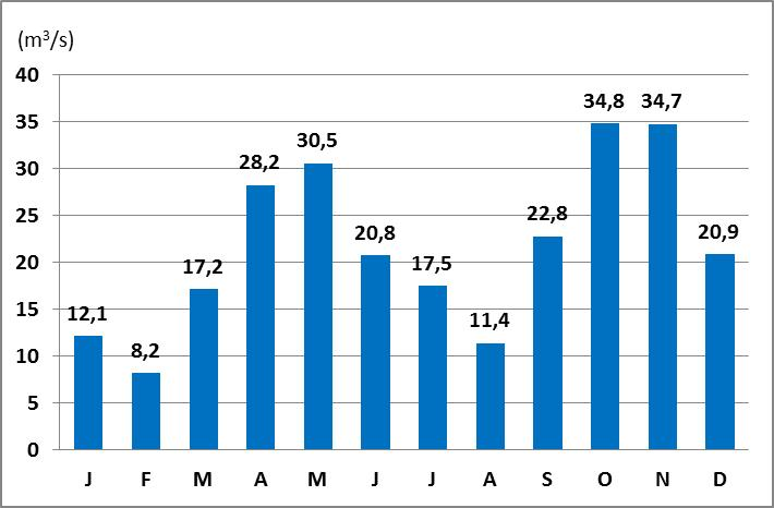 Average monthly discharges of Sava Bohinjka at the gauging station Bodešče in 1911–2010